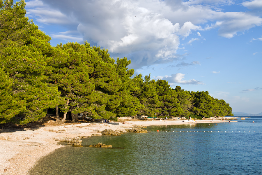 Near Promajna, Croatia.